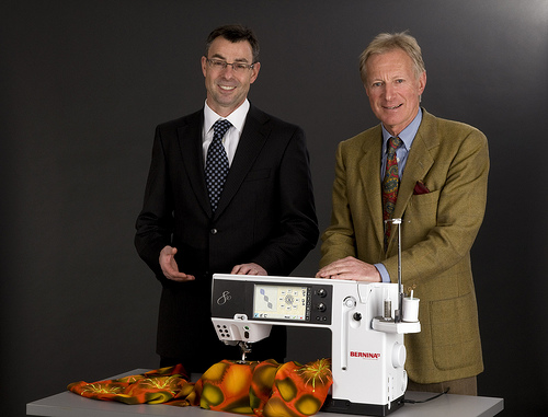 Dreyer - Ueltschi